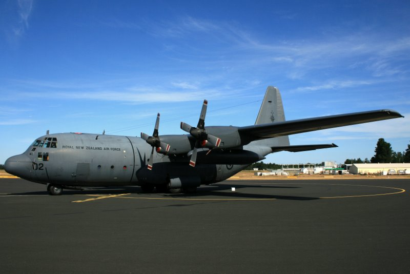 A Lockheed C-130H Hercules of No. 40 Squadron of the Royal New Zealand Air Force parked at Hobart International Airport.